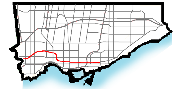 map of Dundas Street